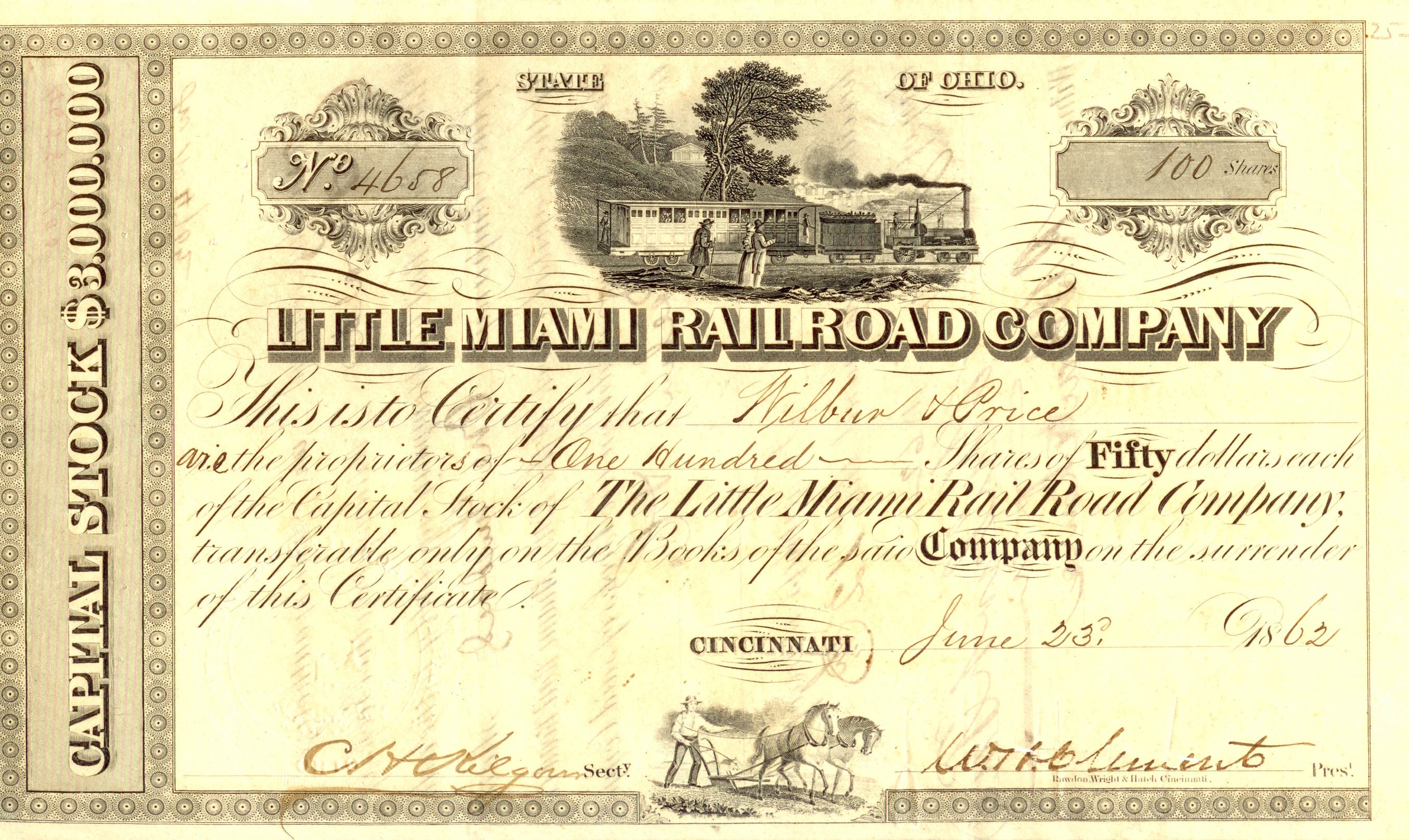 Little Miami Railroad Share Certificate, 1862